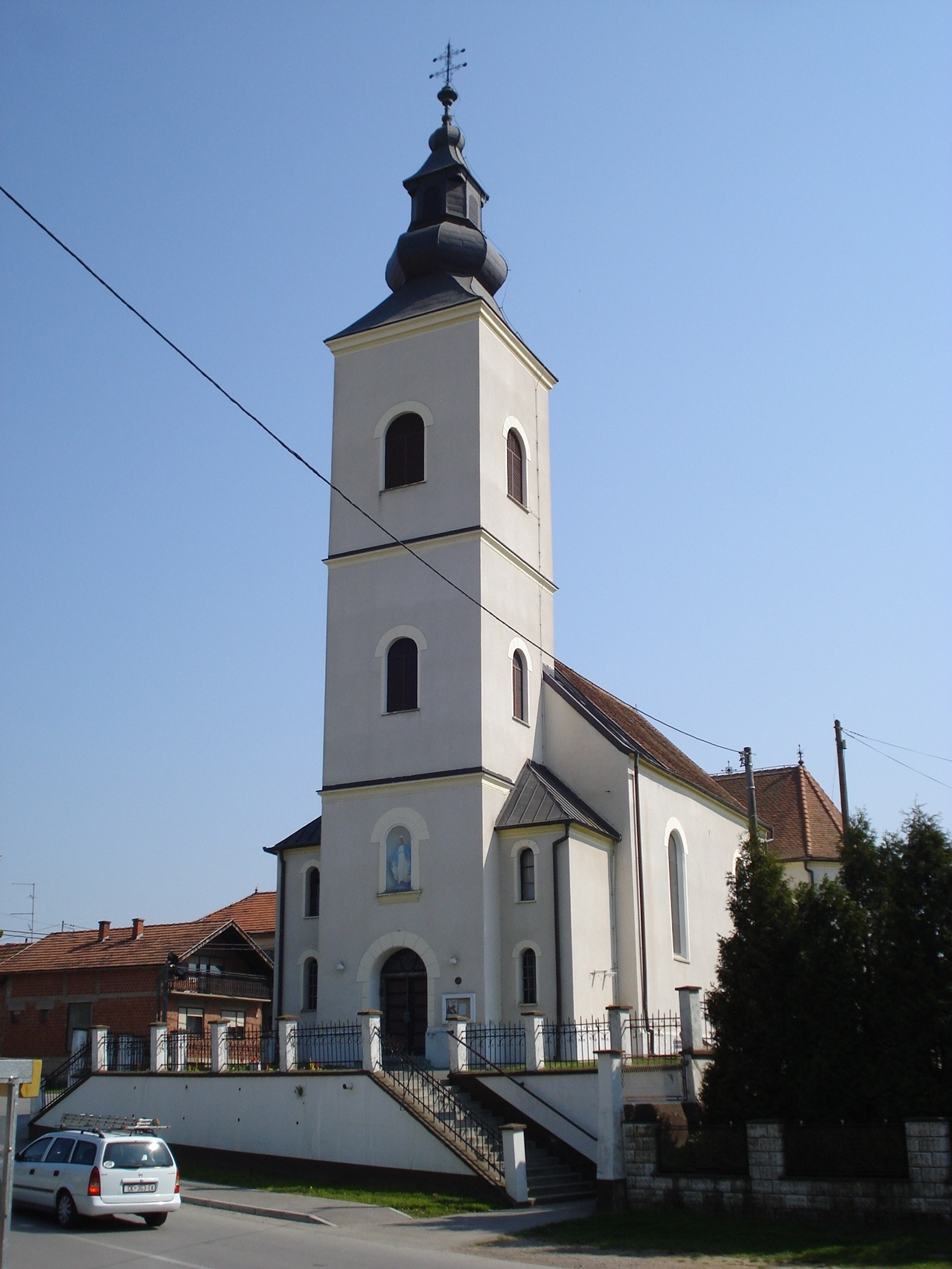 Church of the Assumption of the Blessed Virgin Mary in Belica, Medjimurje County, Croatia - front view